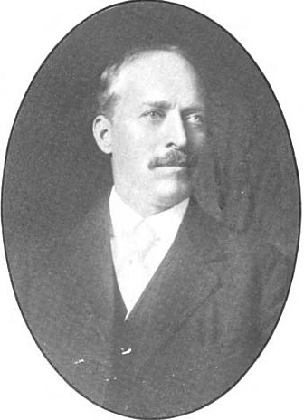 Portrait of American lawyer William Howe Crane, writer of the 1910 book A Scientific Currency. Crane was the older brother of author Stephen Crane.